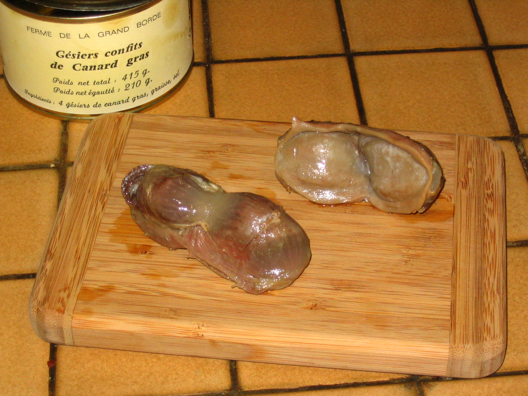 Cooked duck gizzard